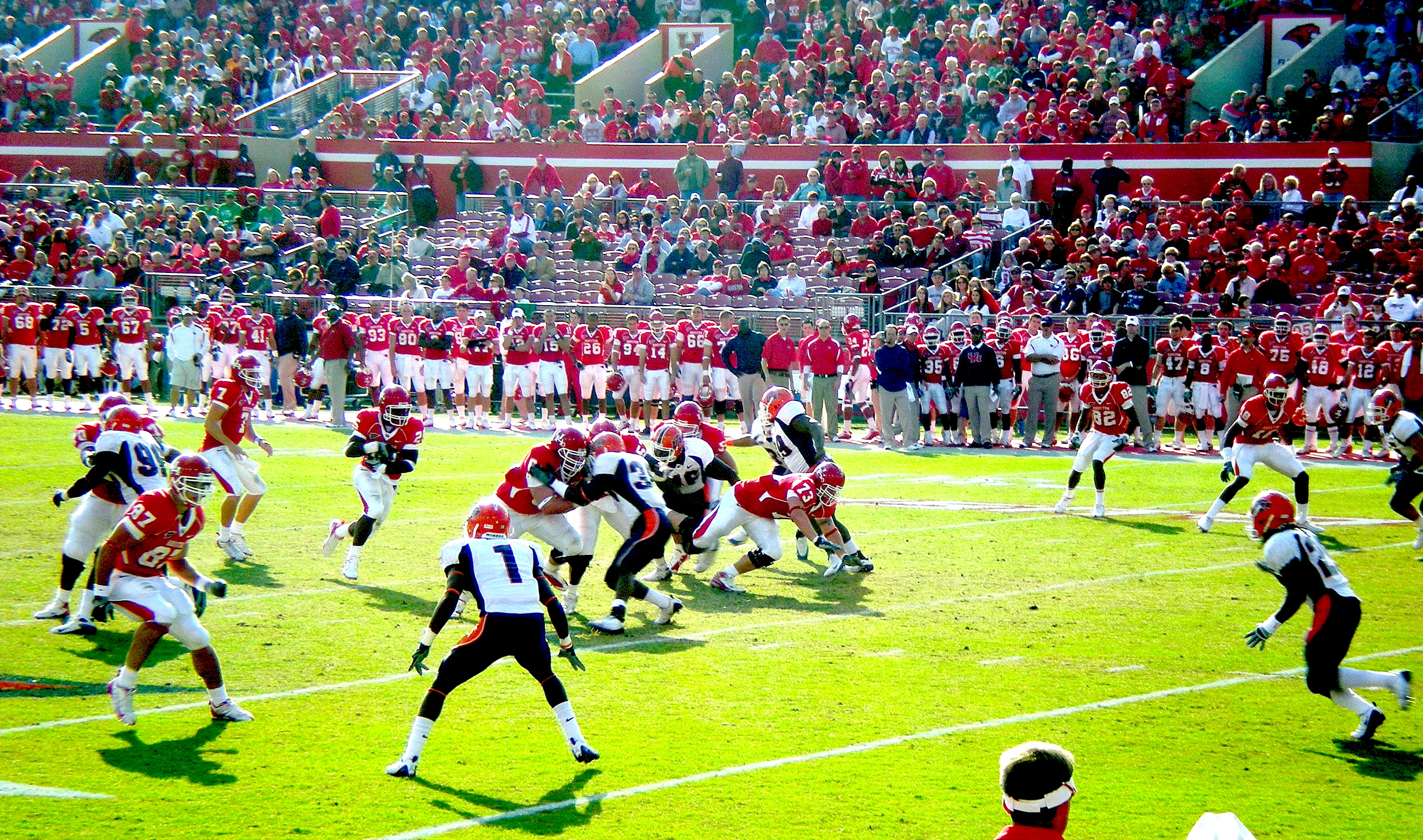 The 2008 Houston Cougars football team playing against the UTEP Miners football team at Robertson Stadium in Houston.